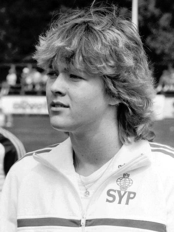 Tiina Lillak at a Europian Cup meeting in 1983 in Sittard, the Netherlands